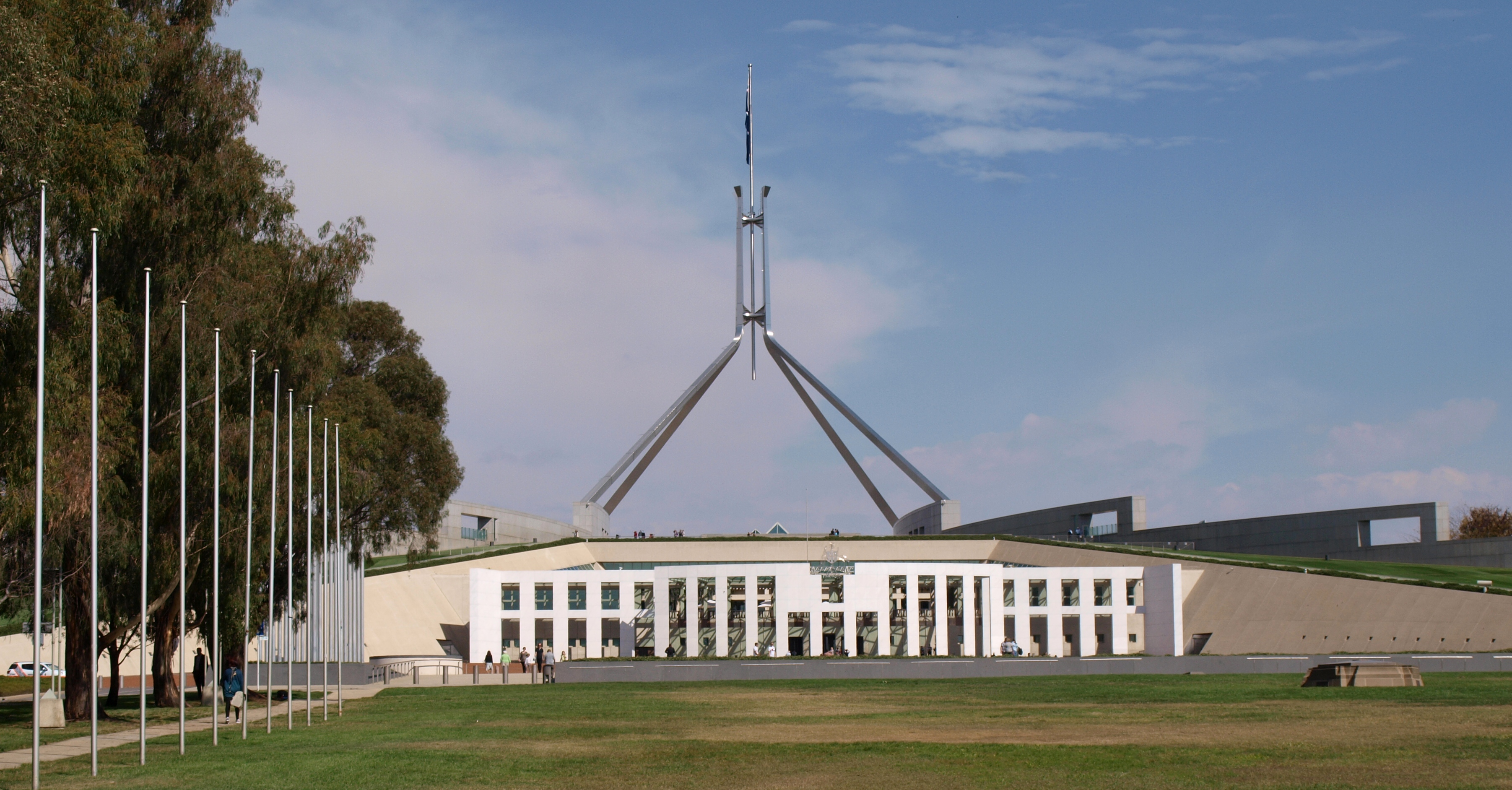 Australian Parlament (Canberra)